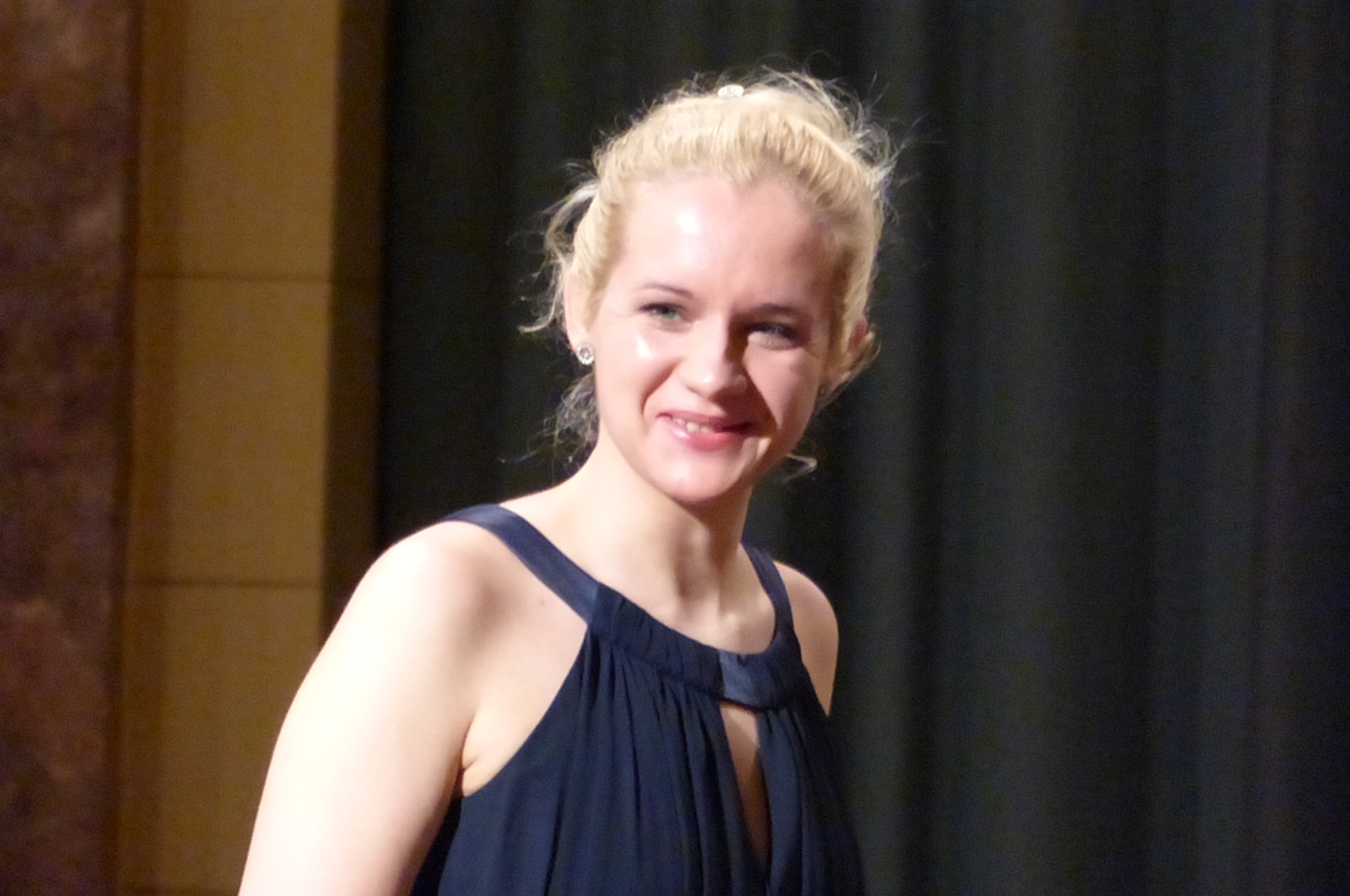 Aleksandra Mikulska, Weltklassik am Klavier, 23. Februar 2014